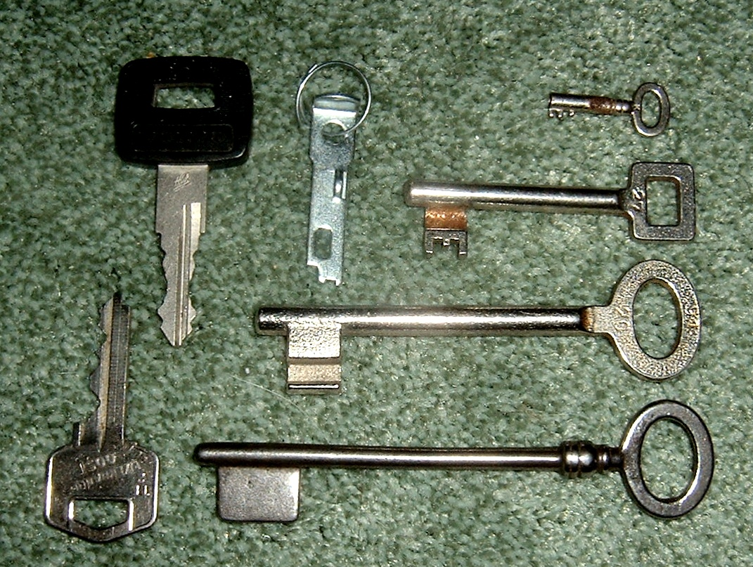 A collection of keys of different types. Upper left is a car key, a pin tumbler key used to start a vehicle. Lower left is a pin tumbler house key. The four keys at right are skeleton keys, used to open antique door locks.